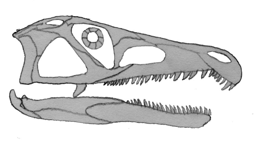 Skull of Chasmatosaurus (Proterosuchus), an archosauriform